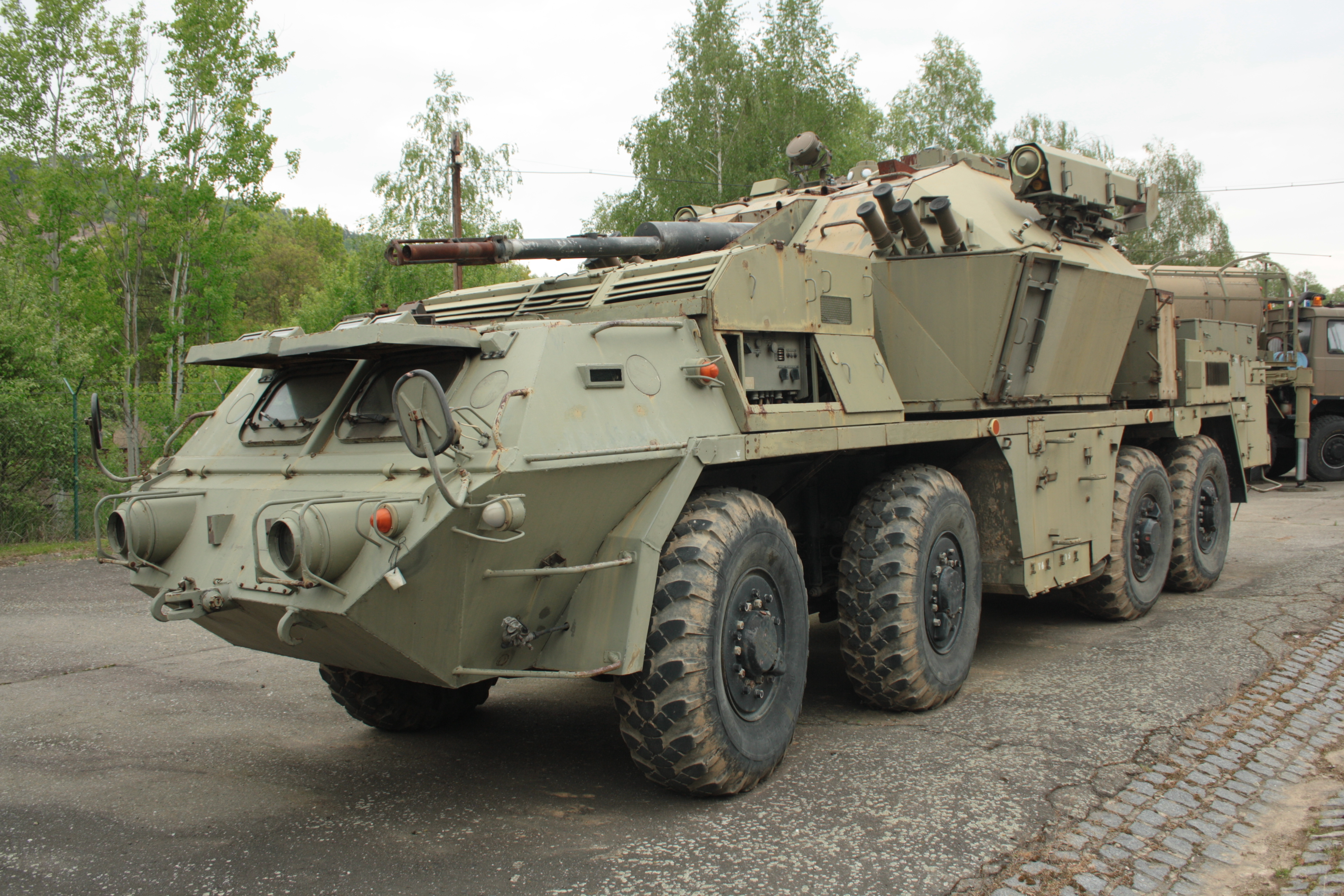 Czechoslovak anti-aircraft self-propelled complet STROP in Lešany military museum, Central Bohemian Region, CZ This photograph was taken with a DSLR from WMCZ's Camera grant. This picture was taken and/or got within the scope of the 'Acquiring scientific and specialized pictures' grant.